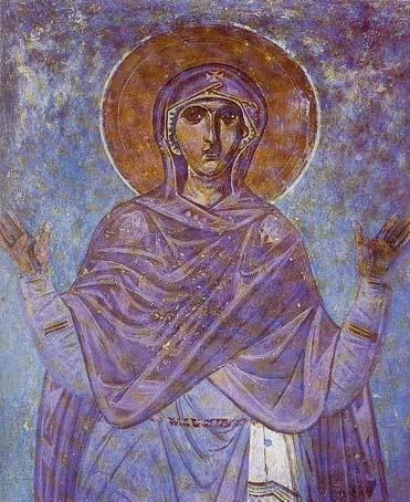 Icon of Virgin Mary in Veljusa Monastery, Macedonia